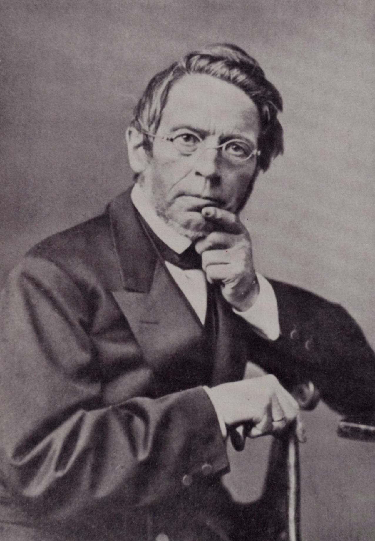 Johann Gustav Droysen, Droysen was a historian in Germany in the 19th century. Johann Gustav Droysen